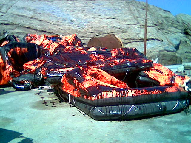 life rafts covered with oil at Santoriny port